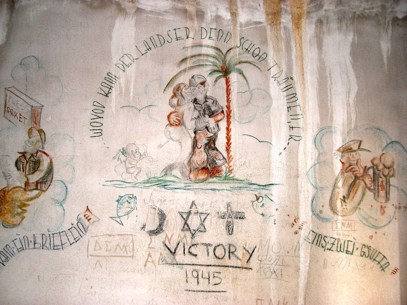 Graffiti from the World War II on the Island of Alimia, Greece.